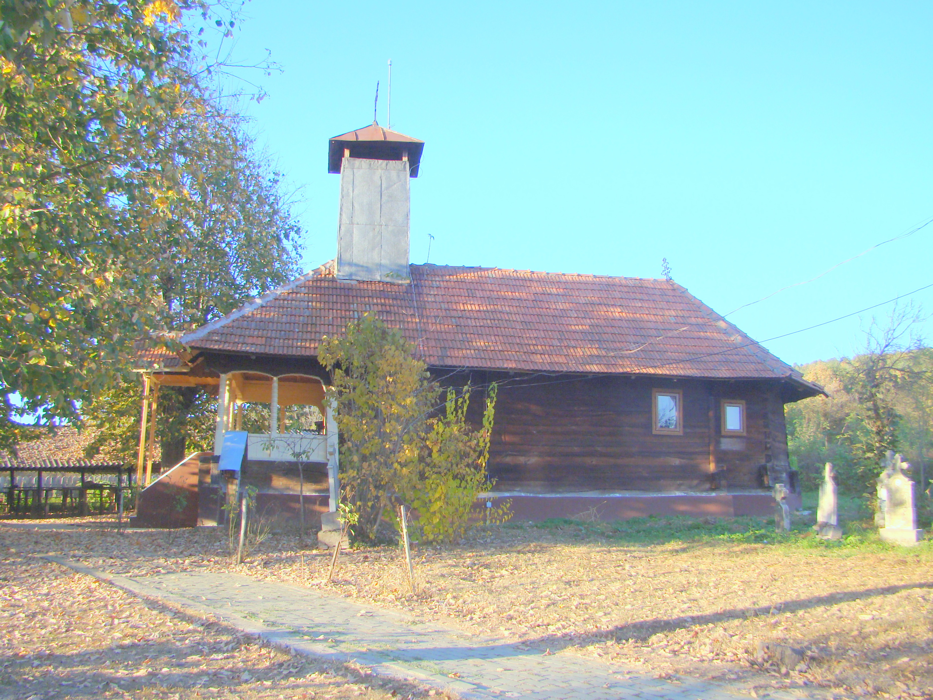 Wooden church in Slivilești, Gorj county, Romania